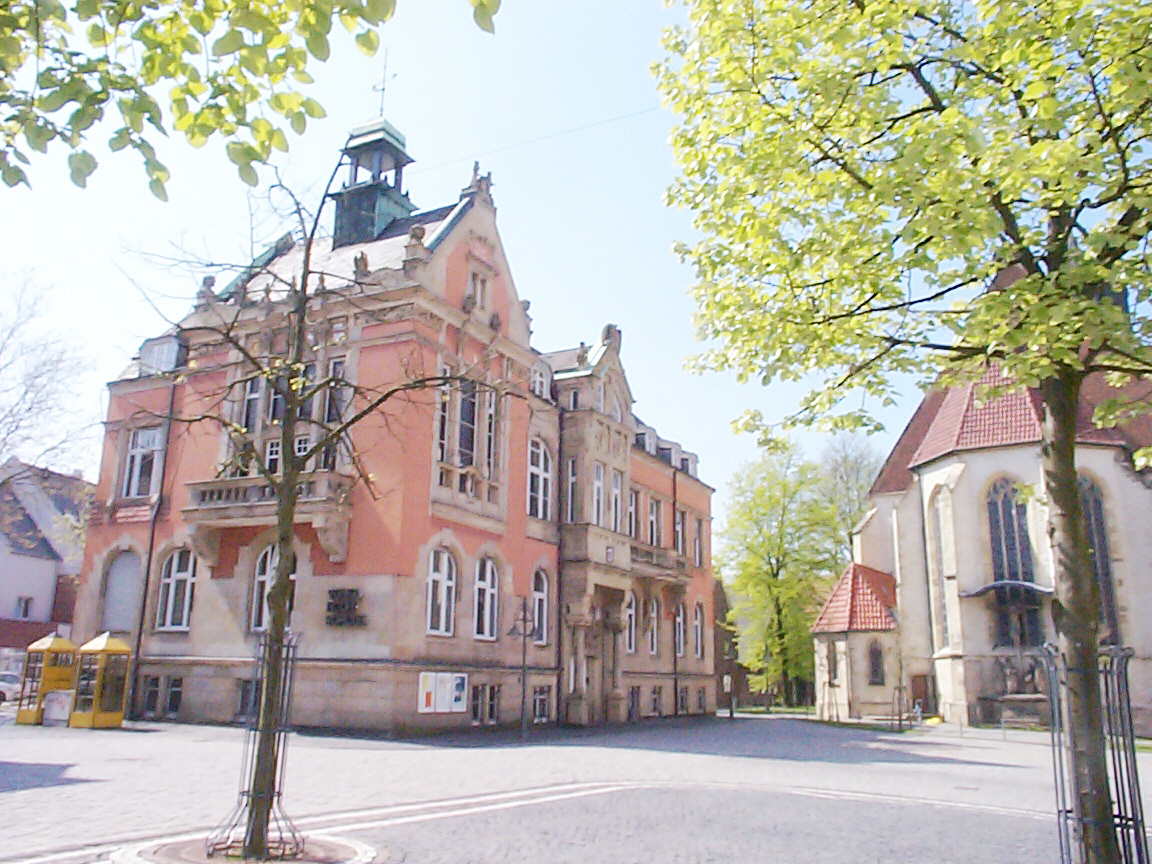 Historical town-hall in Ahlen, Germany; today folk high school.